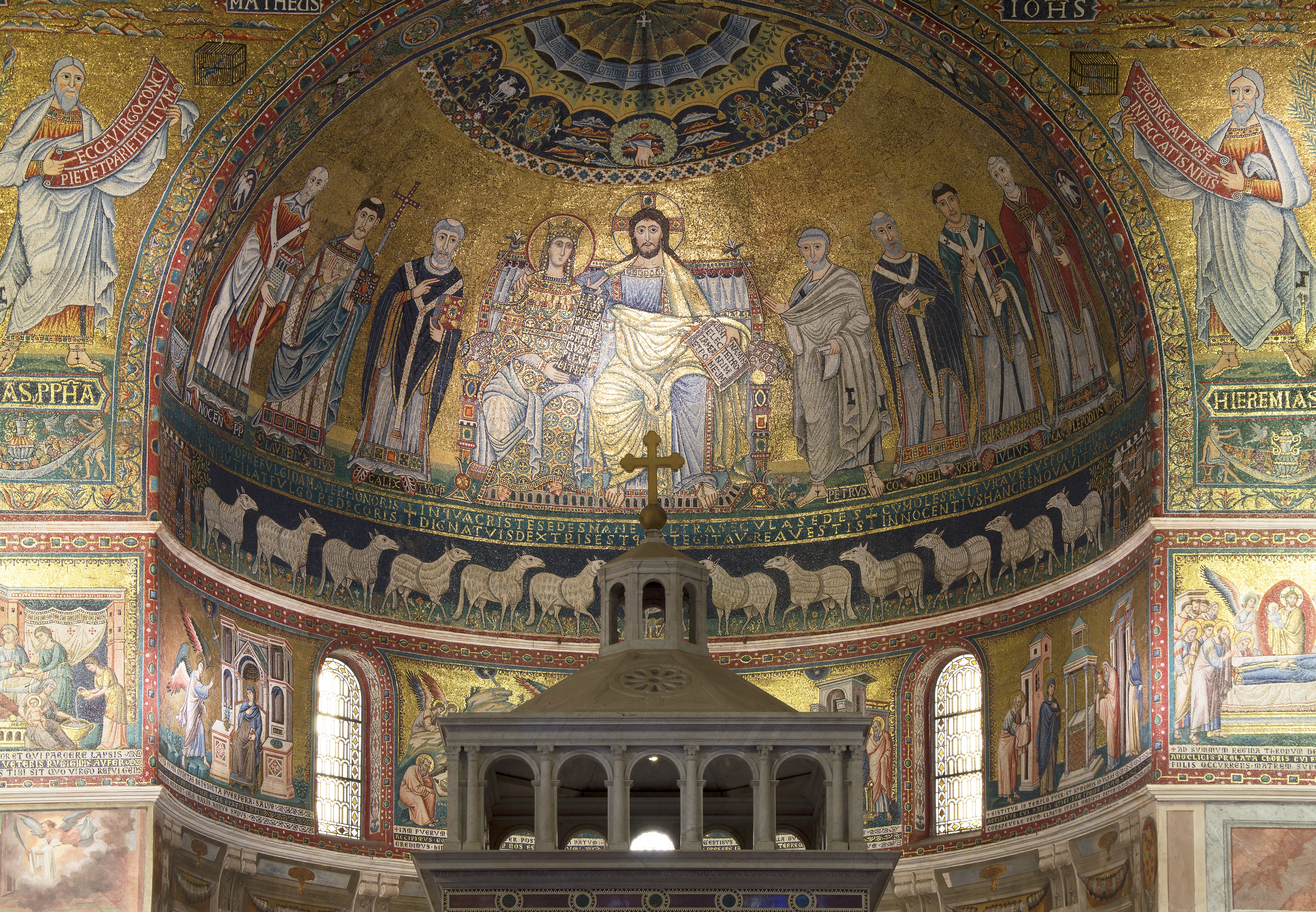 Santa Maria in Trastevere - Apse